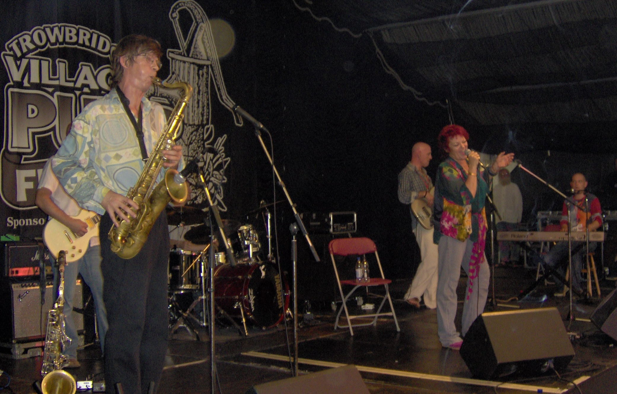 Dana Gillespie & her London Blues Band. Taken by Rod Ward at Trowbridge Village Pum Festival 22nd July 2006